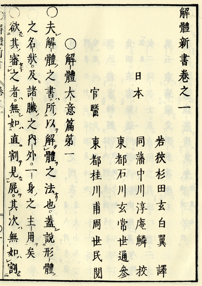 Page from the "New Book of Anatomy" (Kaitaishinsho), said to be the first Japanese translation of a complete Western book. At the beginning the pages gives the names of Sugita Genpaku as the translator and three of his collaborators Nakagawa Junan, Ishikawa Genjō und Katsuragawa Hoshū